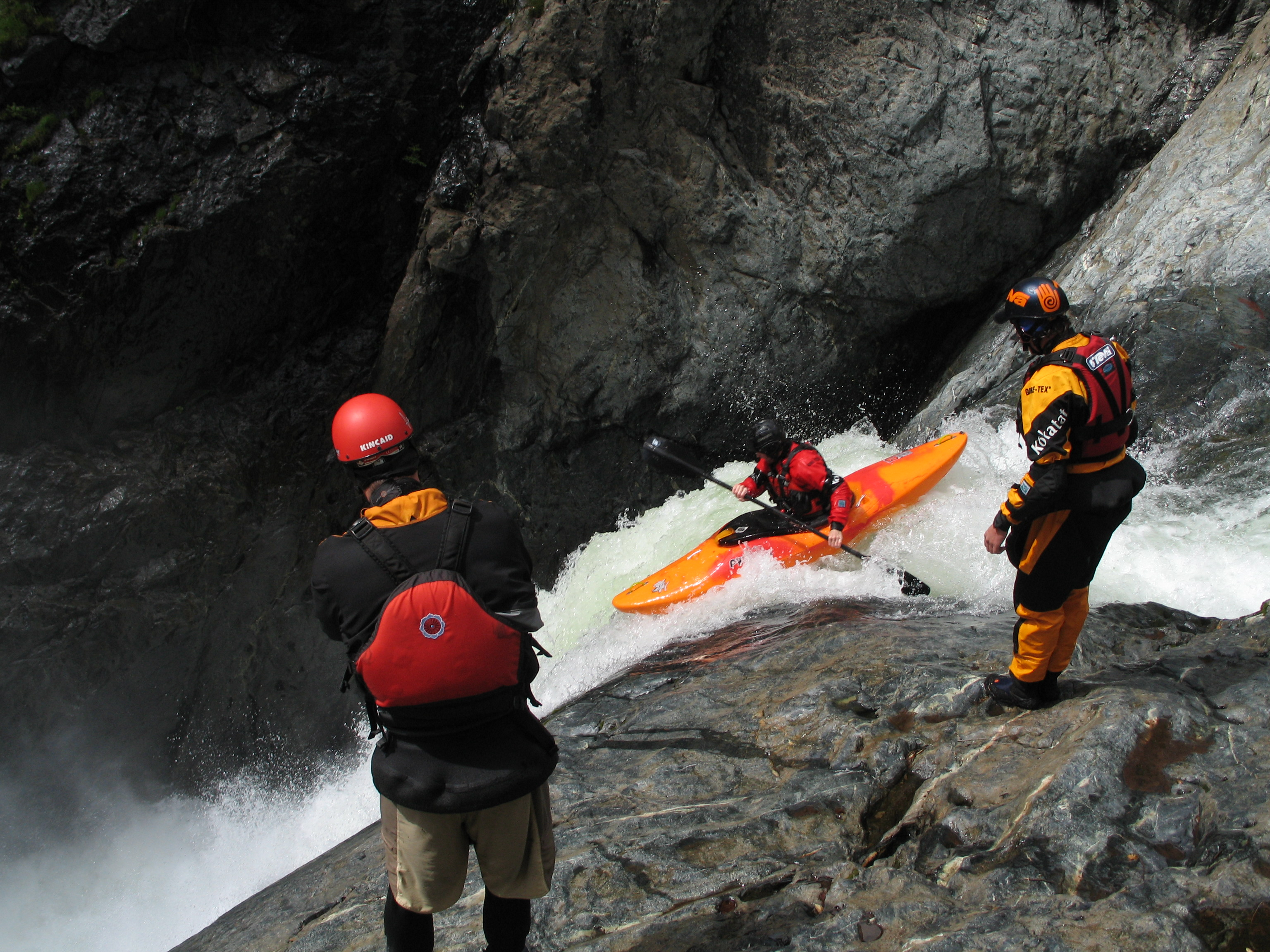 Kayker running Frenchy's Falls on Big Kimshew Creek, CA as two other kayakers watch.